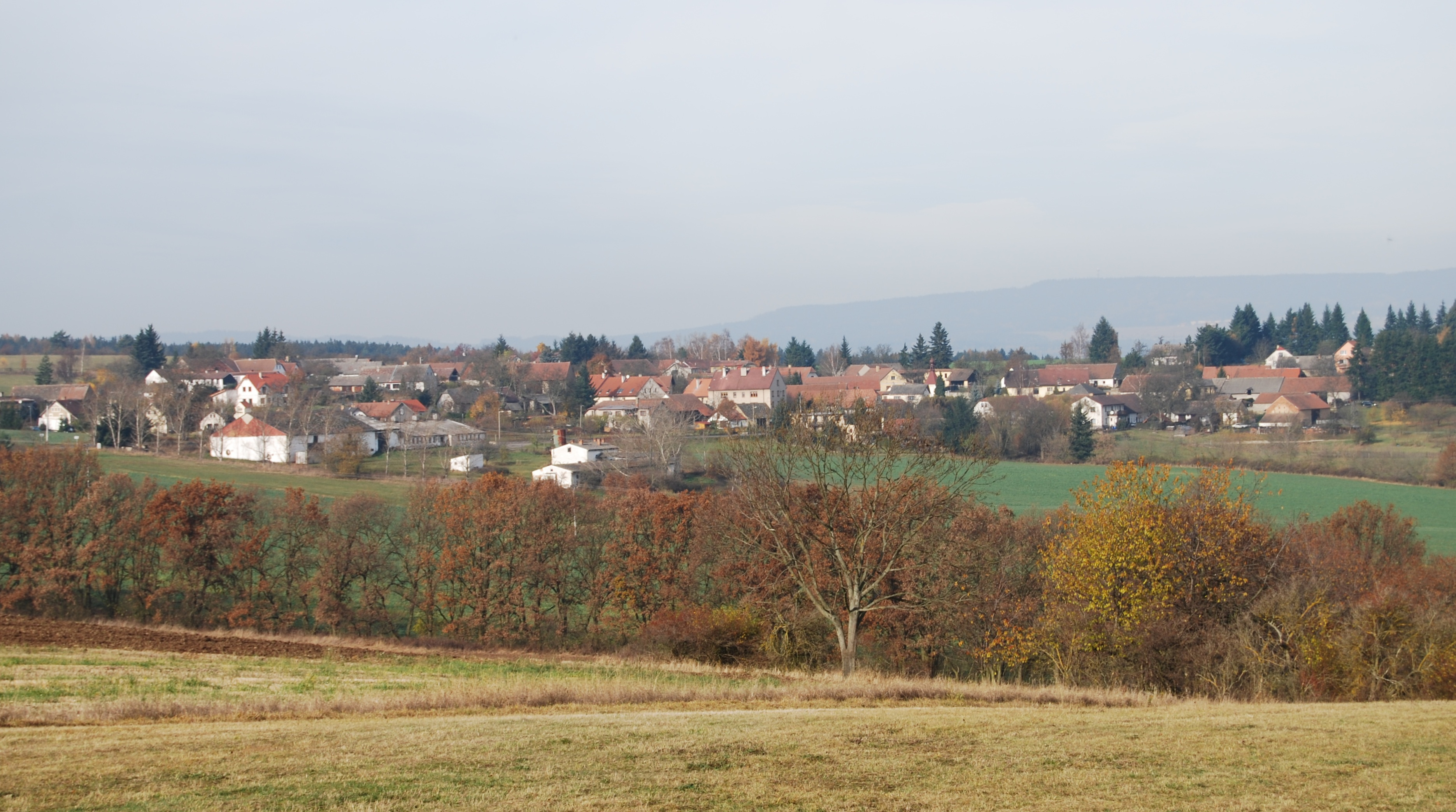 Vševily village in Příbram District, Czech Republic.